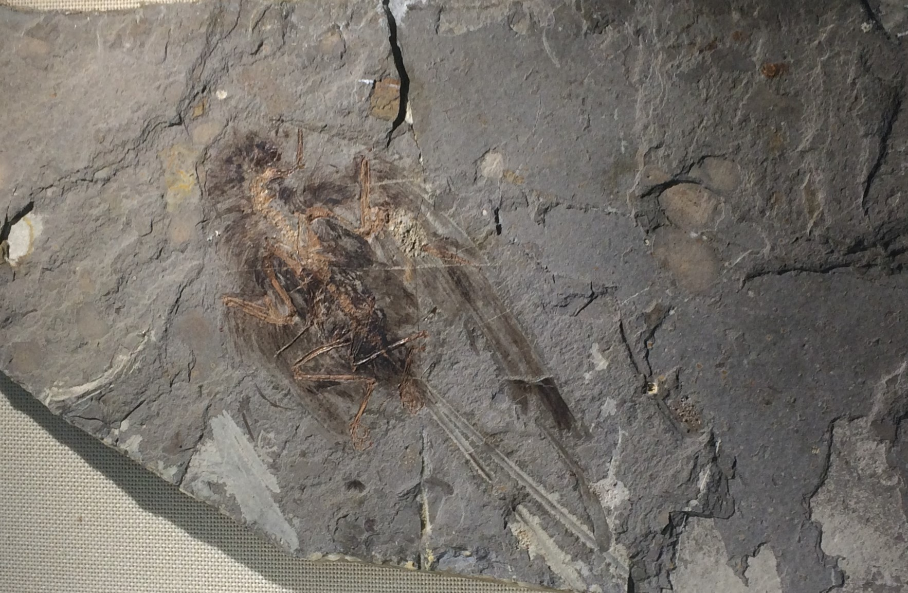 Cathayornis at the Beijing Museum of Natural History